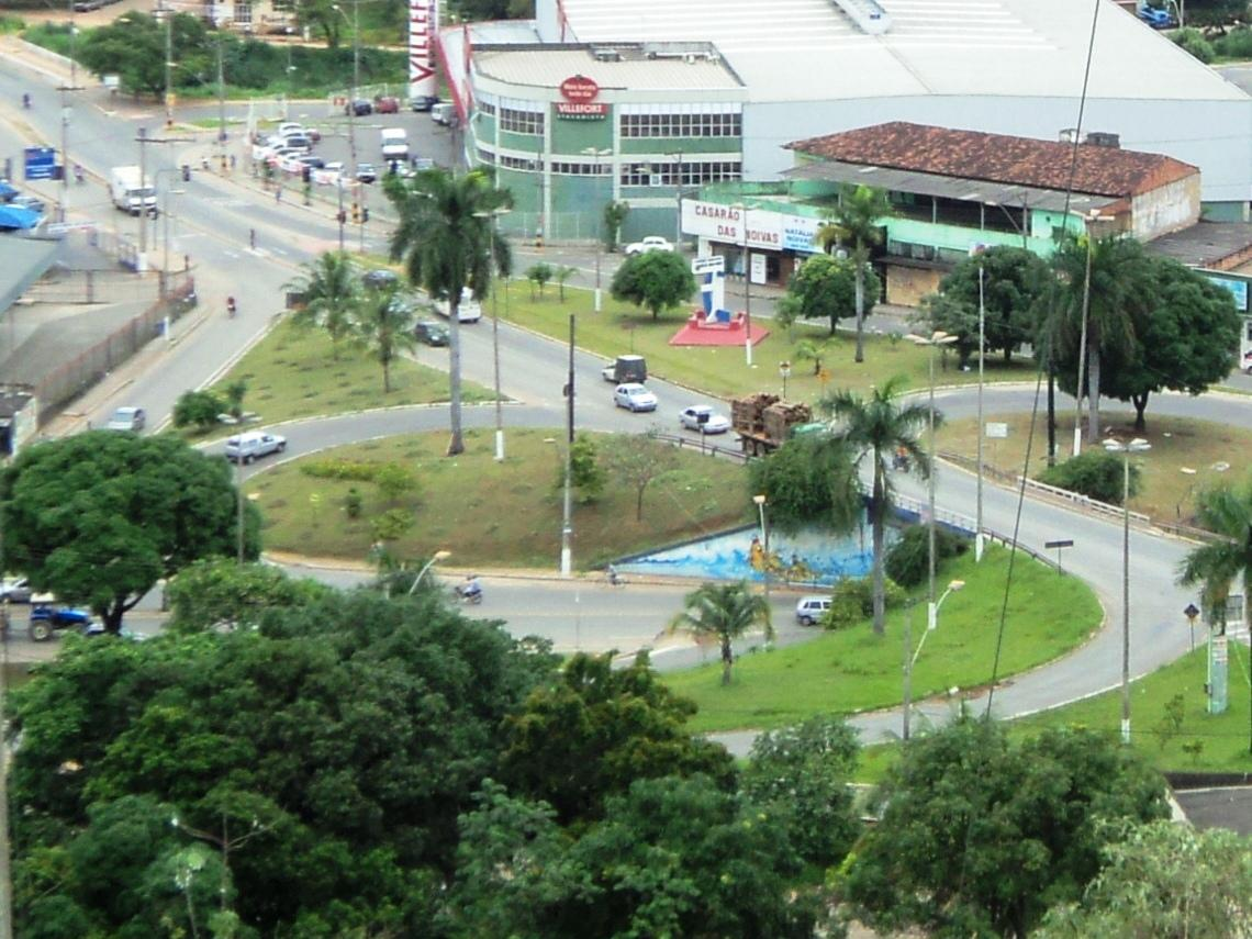 Partial view of the Pastor Pimentel Interchange, in Coronel Fabriciano, Minas Gerais, Brazil.